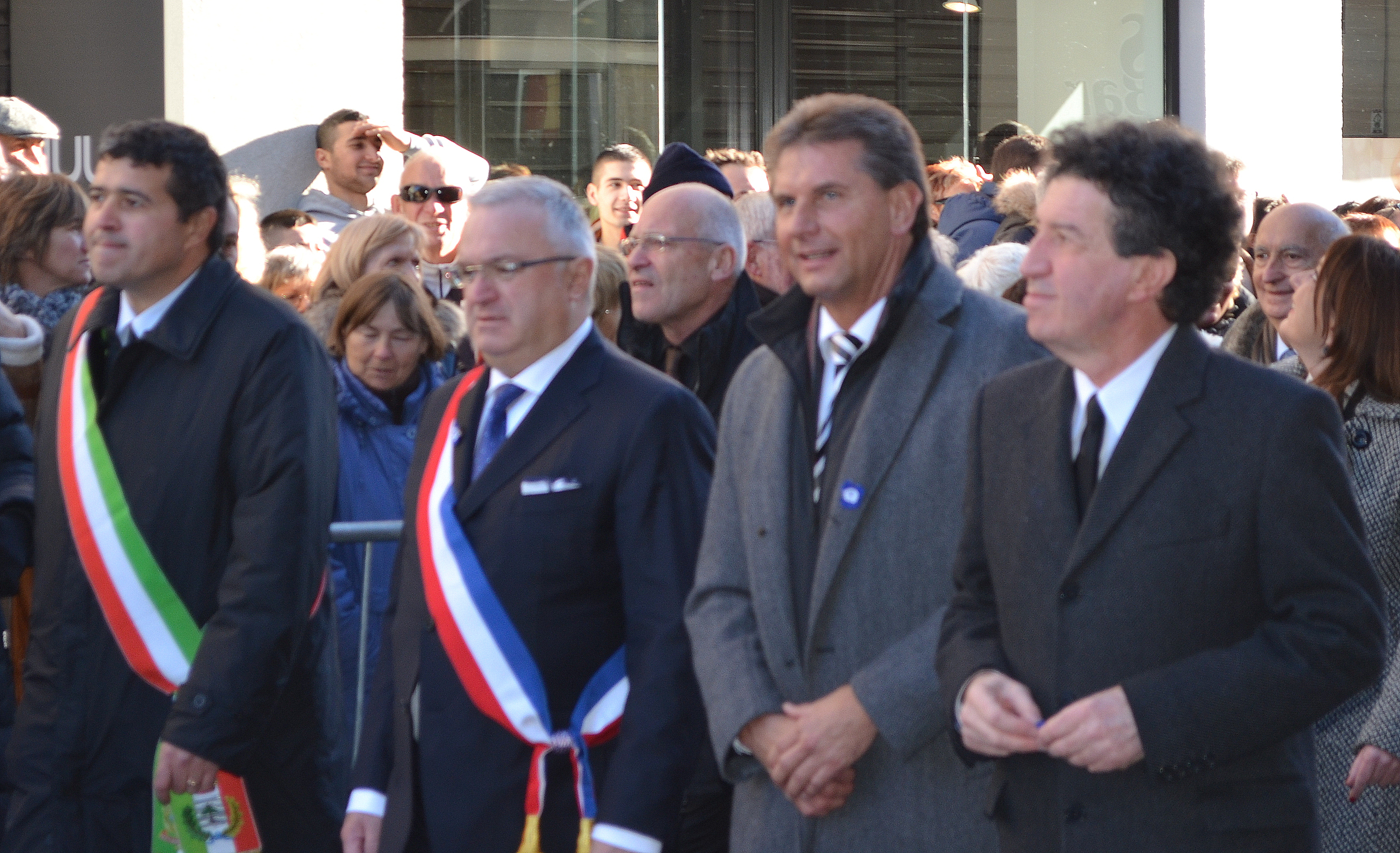 Personality rights warningAlthough this work is freely licensed or in the public domain, the person(s) shown may have rights that legally restrict certain re-uses unless those depicted consent to such uses. In these cases, a model release or other evidence of consent could protect you from infringement claims.